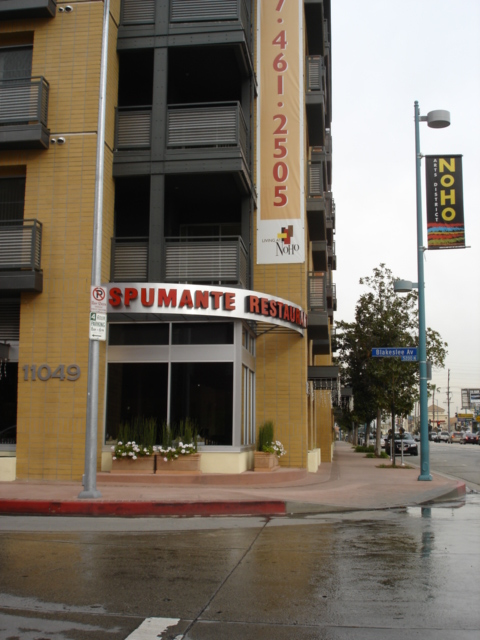 Mixed Used on Magnolia Blvd in NoHo